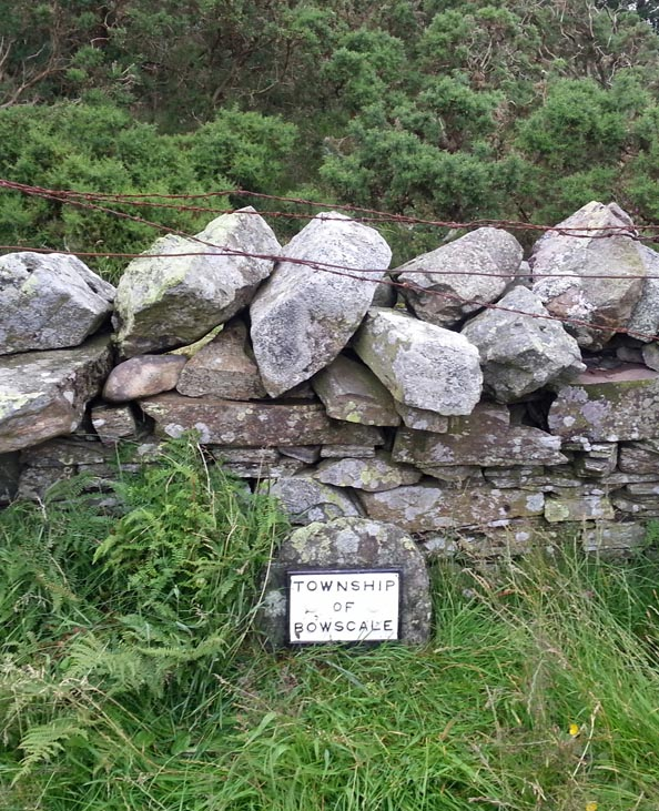 Township boundary marker at Mungrisdale, Cumbria. the Parish Mungrisdale is made up of eight hamlets: - Berrier, Bowscale, Haltcliffe Bridge, Heggle Lane, Hutton Roof, Mosedale, Mungrisdale and Murrah. The marker has been restored for historical purposes.